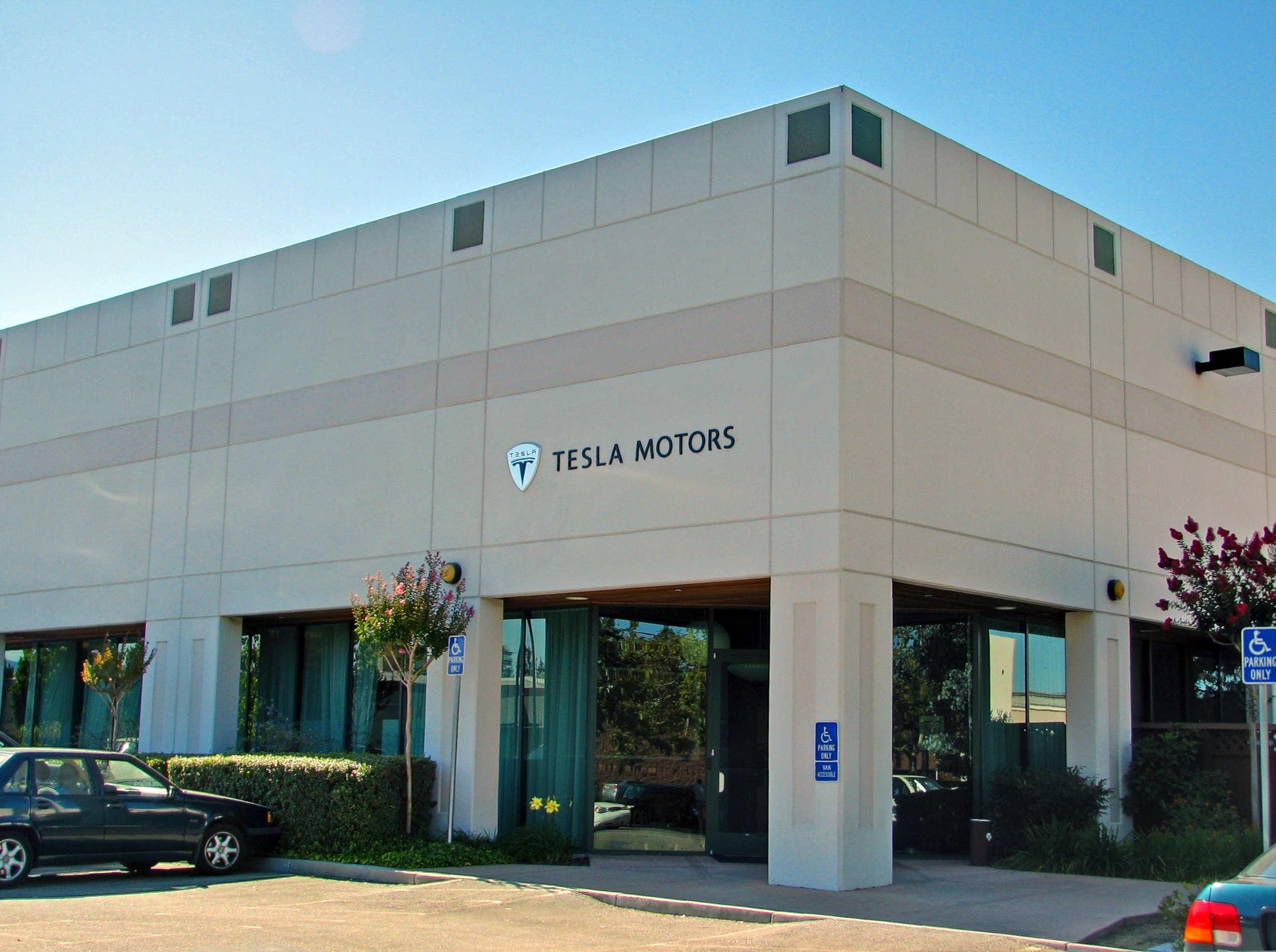 Former headquarters of Tesla Motors Inc., located in San Carlos, CA, USA